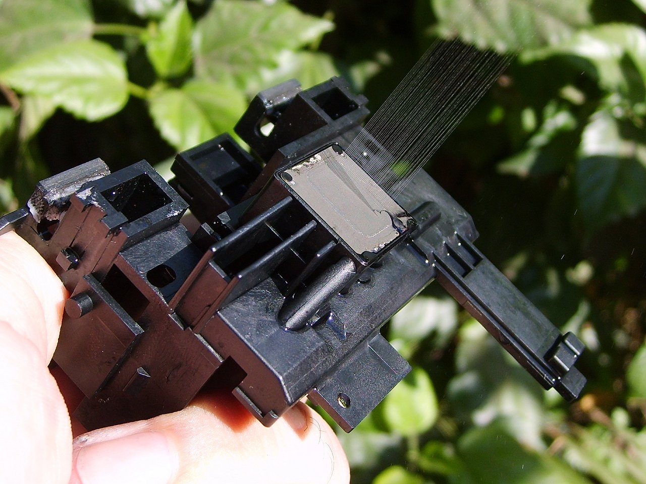 Printing nozzle of an EPSON C20 Inkjet printer. The black ink nozzles are being put under test in this picture showing the 48 streams of liquid coming out clearly and with a subtle deviation. On a healthy print head there shouldn't be any missing stream and no deviation of the streams, all should be parallel to each other.